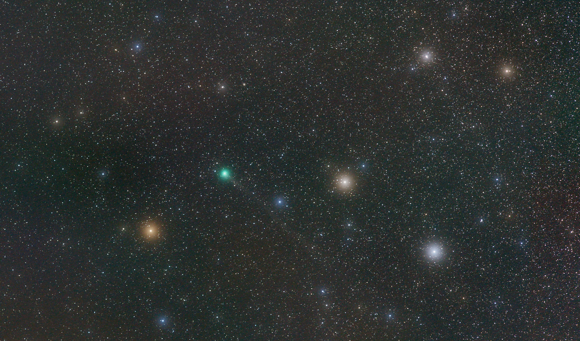 Comet C/2014 Q2 (Lovejoy) taken while passing through the constellation Lepus, 29 December 2014. Photographed from Barra de Valizas, Rocha, Uruguay.